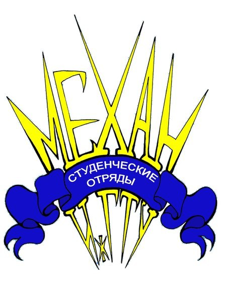 Mehan